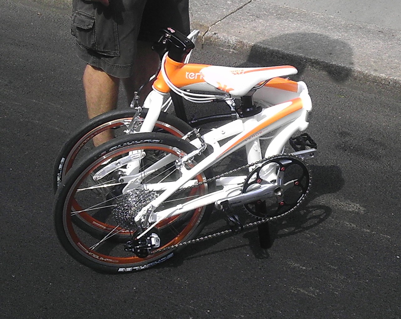 Looking west at Tern Verge bike, folded on a sunny morning.